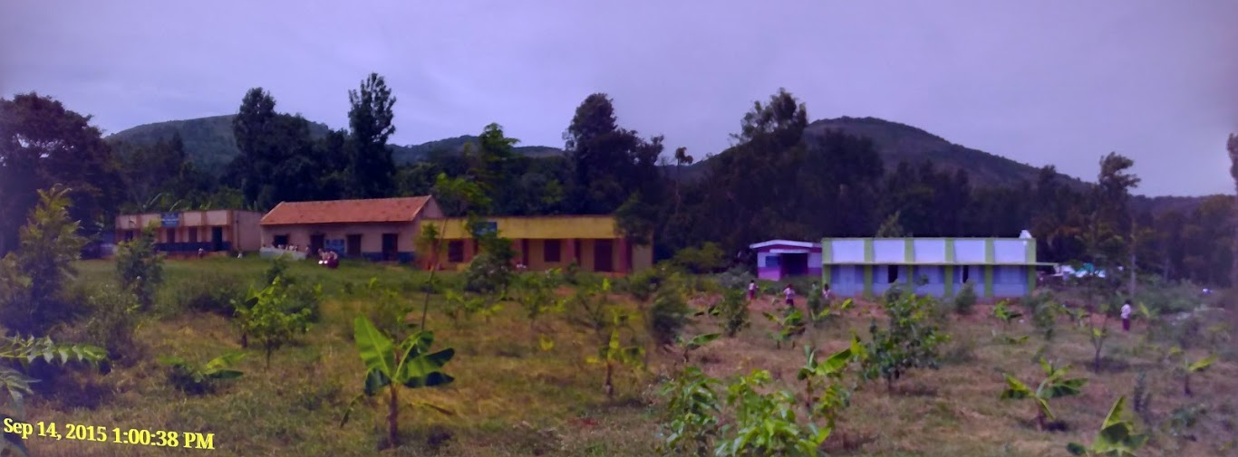 my school